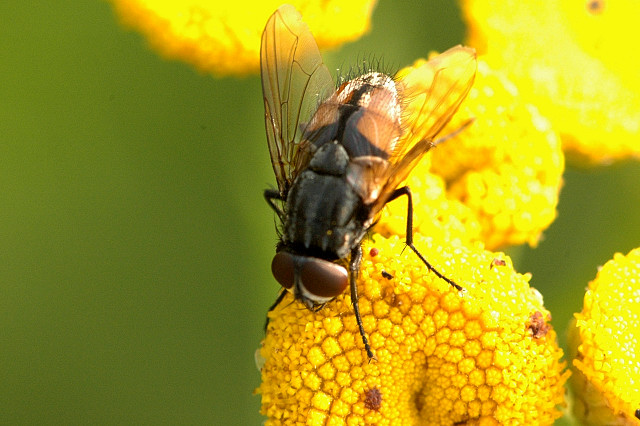 Picture taken in Commanster, Belgian High Ardennes . Species: male Musca autumnalis